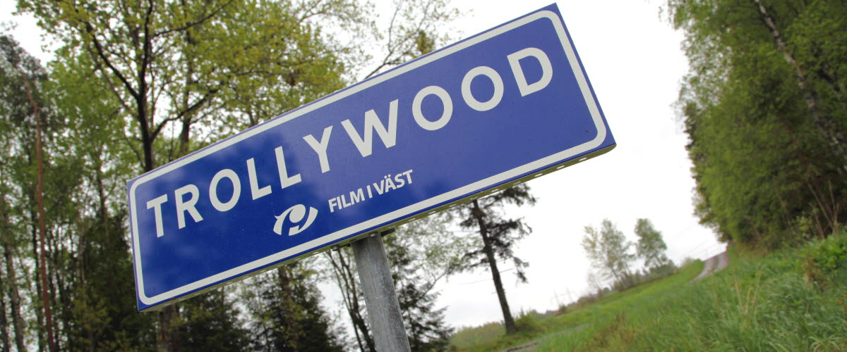 Trollywood